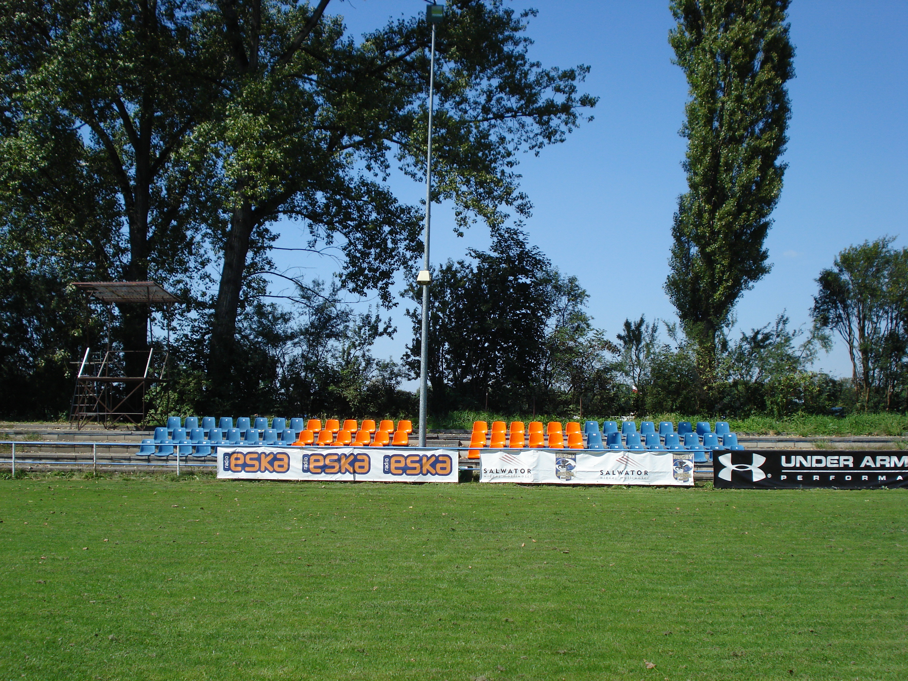 stadium panorama on west